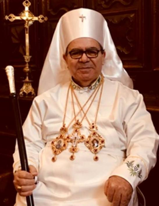 Le Patriarche BENJAMIN PREMIER ABBOUD